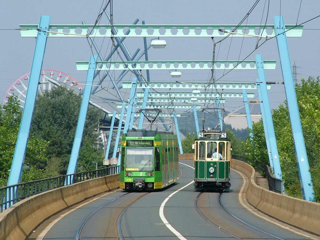 A meeting of two generations of tramcars in Oberhausen: on the right (leaving) 25, one of the very first cars in Oberhausen, built 1899 and restored to working order in the late 1990s; on the left (approaching) 210, a low-floor car from 1996 - when the tramway was re-installed following the closure of all lines until 1974, including the construction of a new road&rail-route especially for public transport ("ÖPNV-Trasse")